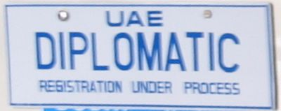 United Arab Emirates Temporary Registration license plate of a diplomatic vehicle to be registered, Philippines